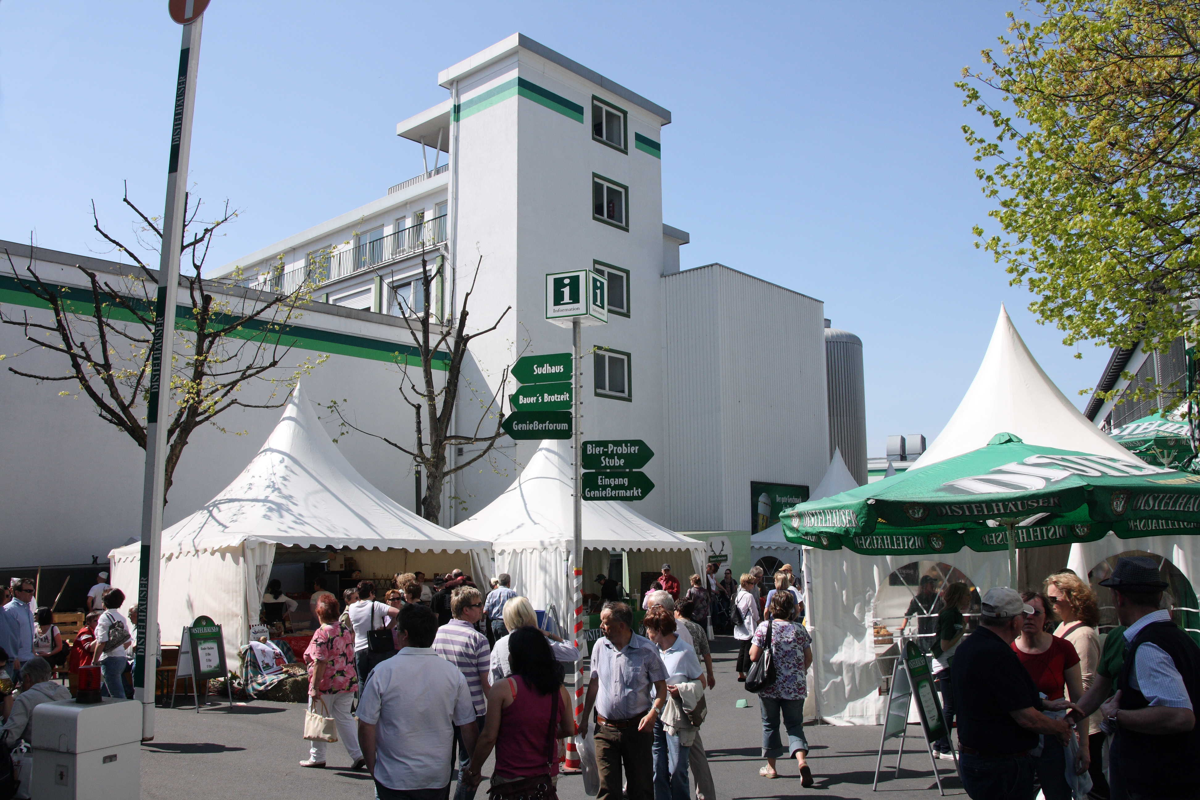 The brewery at Distelhausen at the day of the Bon-Vivant-Market.